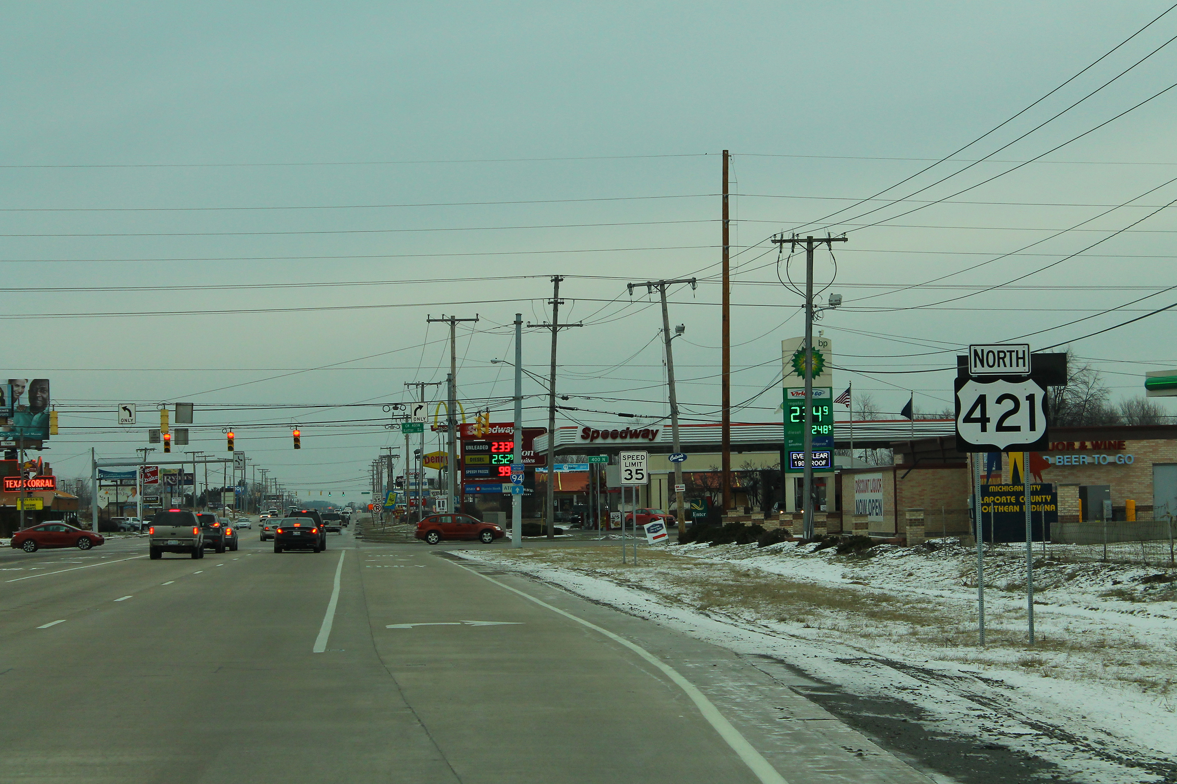 US421nRoad-NorthOfInt94-NearEnd